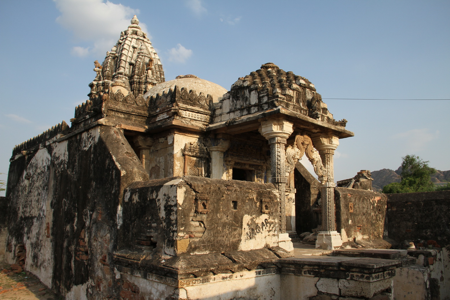 Jain Temple This is a photo of a monument in Pakistan identified as the SD-64